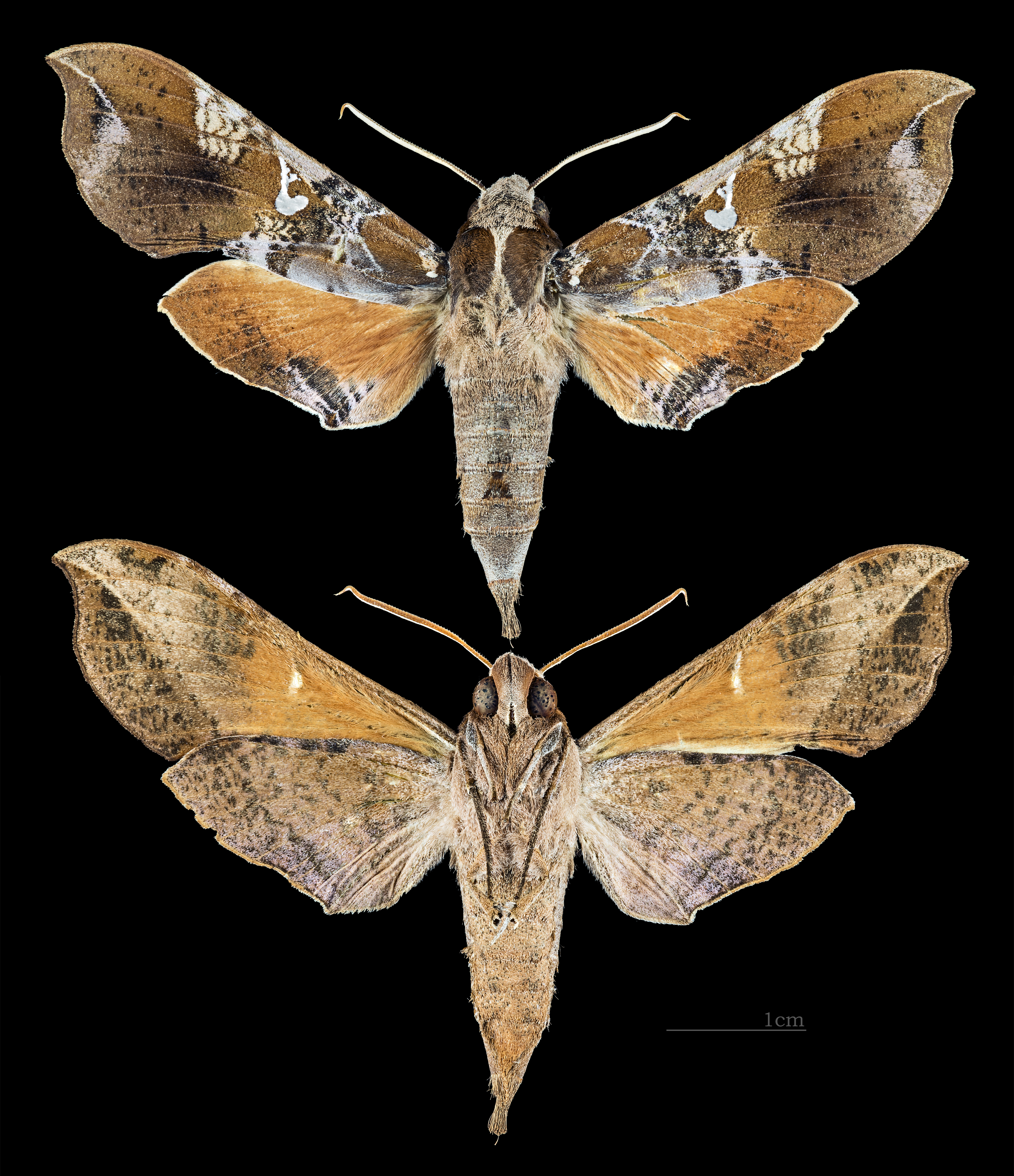 Callionima falcifera - Two views of same specimen Collection of the Mathematician Laurent Schwartz